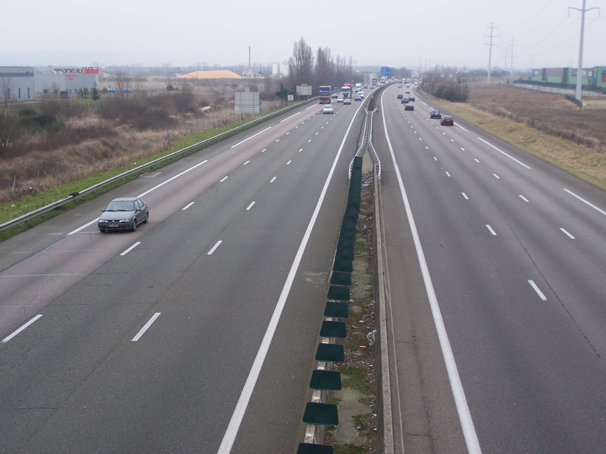 Sight, in the direction of Paris, of the French motorway A13 crossing the city of Aubergenville in the department of Yvelines.